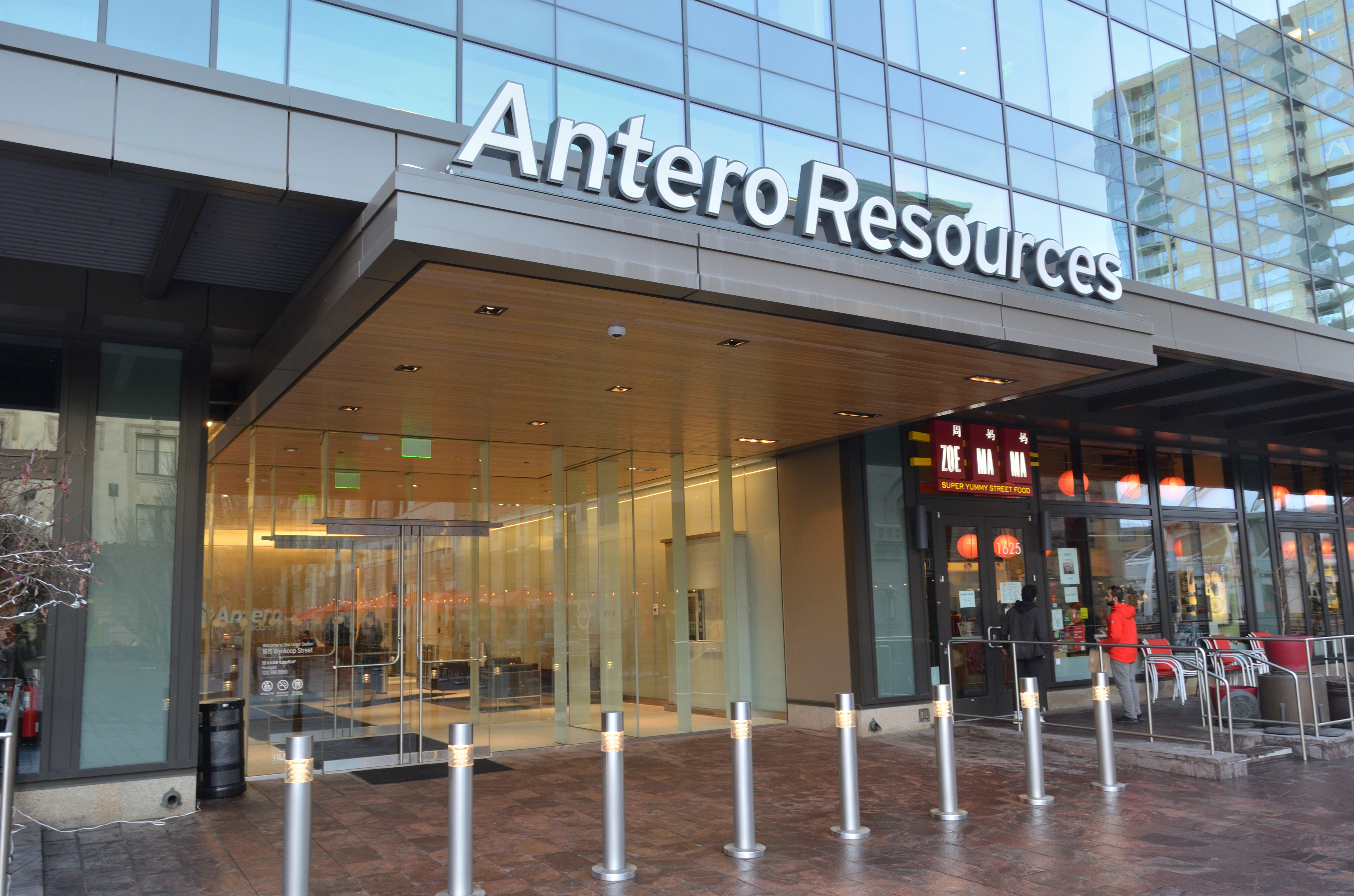 Antero Resources Headquarters - Address: 1615 Wynkoop Street, Denver, Colorado 80202